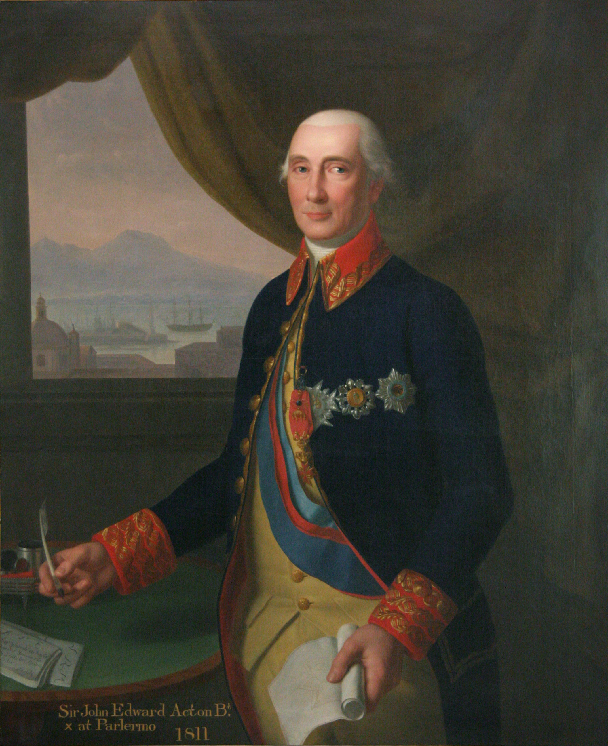 This painting is owned by Richard Lyon-Dalberg-Acton, 4th Baron Acton. His research suggests that the artist might be Emanuele Napoli, who was a painter mainly doing copies and a restorer at the Royal Palace of Capodimonte in the reign of Ferdinand IV.